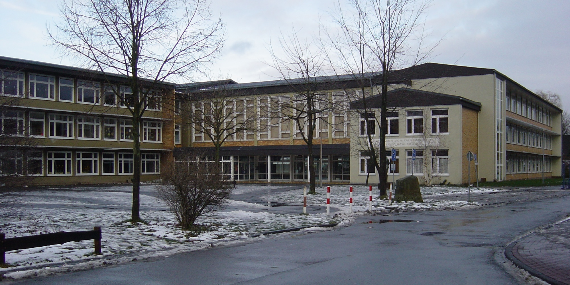 Hoffmann-von-Fallersleben-Realschule Höxter (Germany)